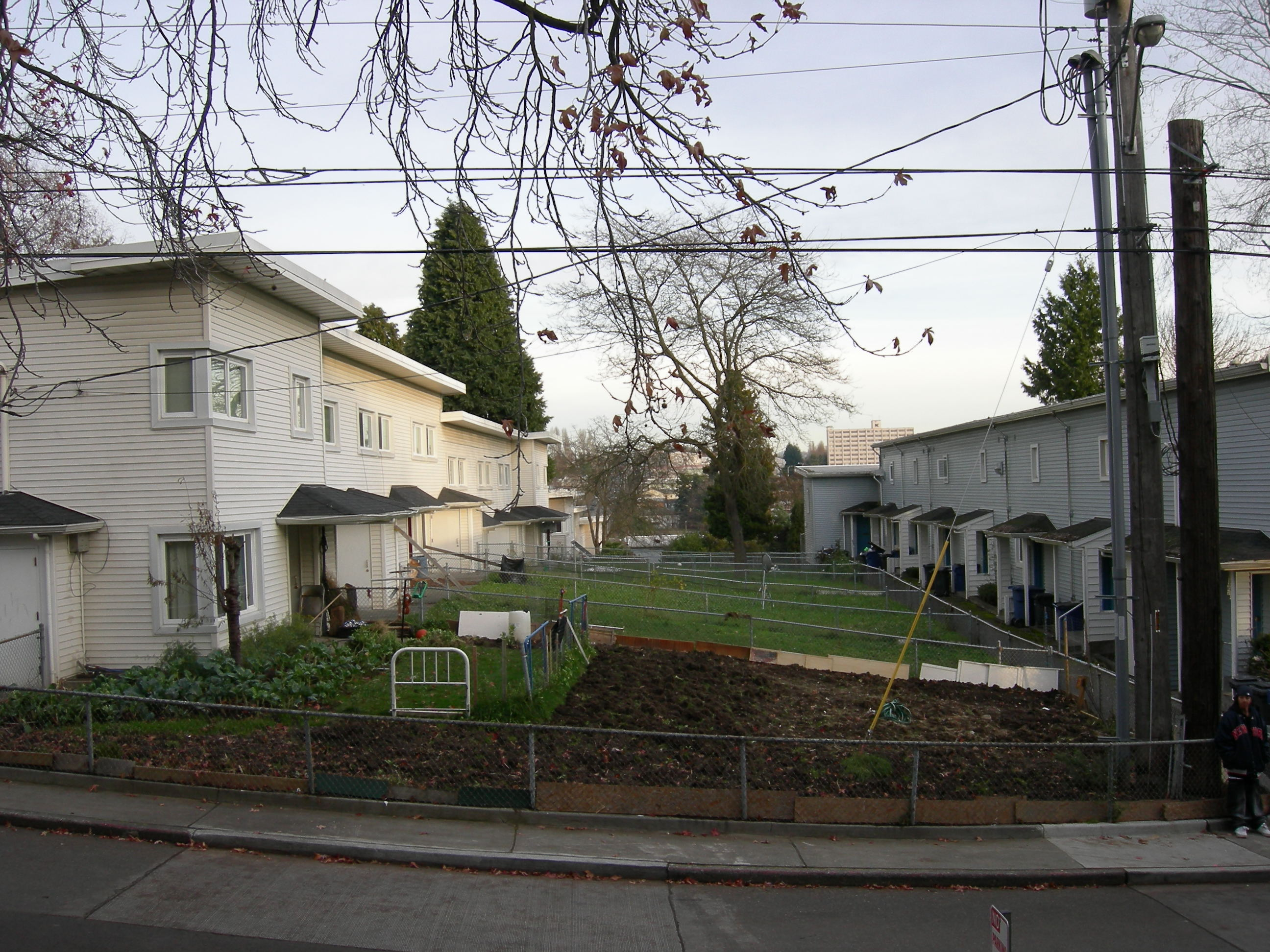 Row houses, Yesler Terrace housing project, Seattle, Washington.